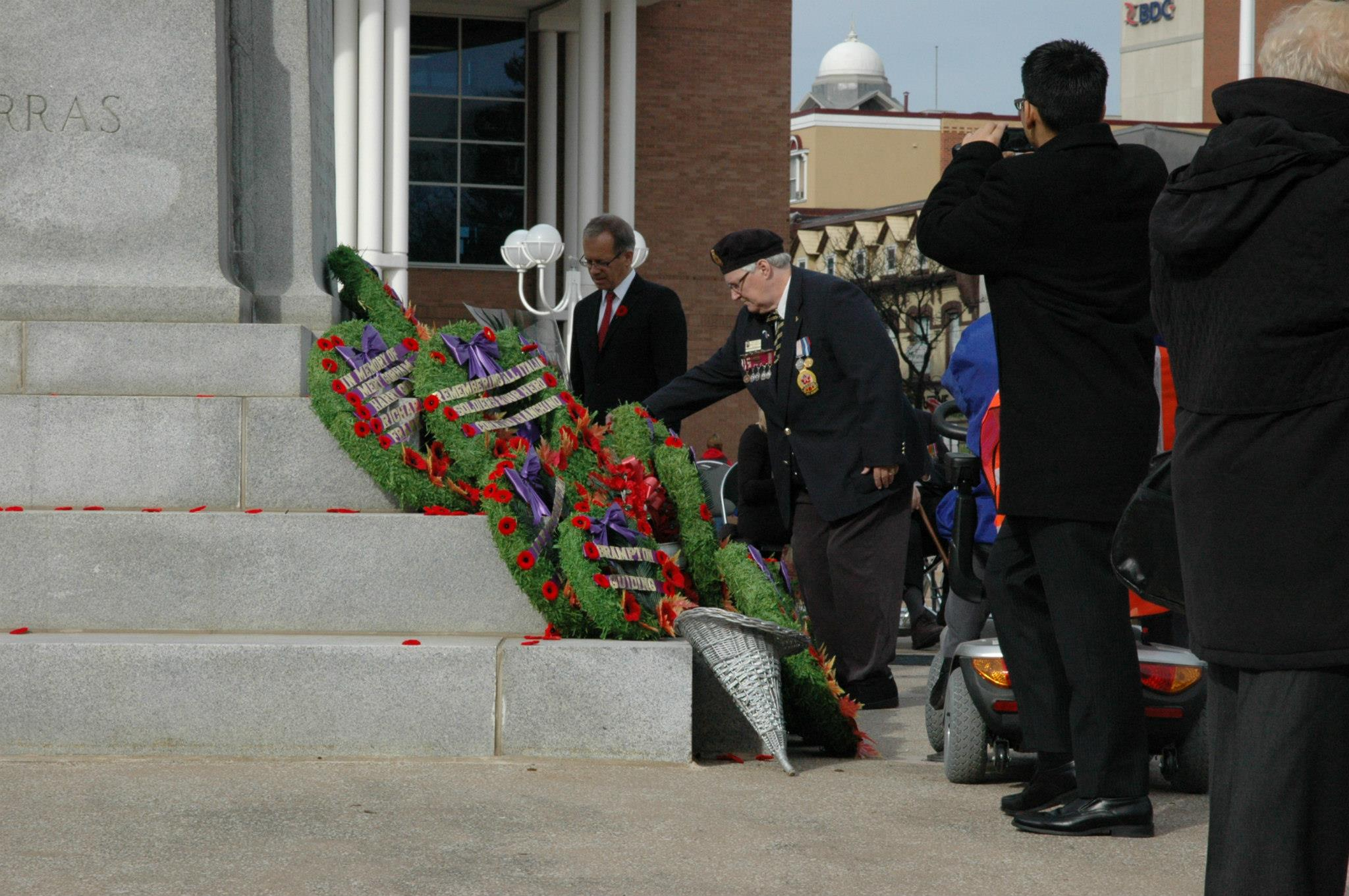 2012 ceremony.